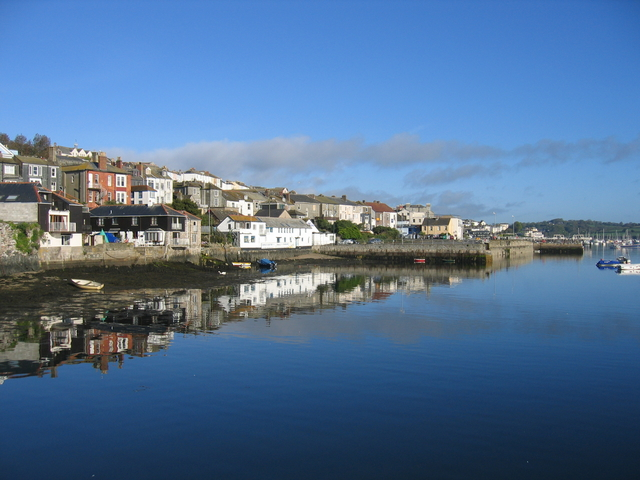 Falmouth waterfront. Looking along the assorted buildings on the waterfront from the yacht moorings by the town quay. The long white building is one of those chandlers that can be a real Aladdin's cave to browse around!